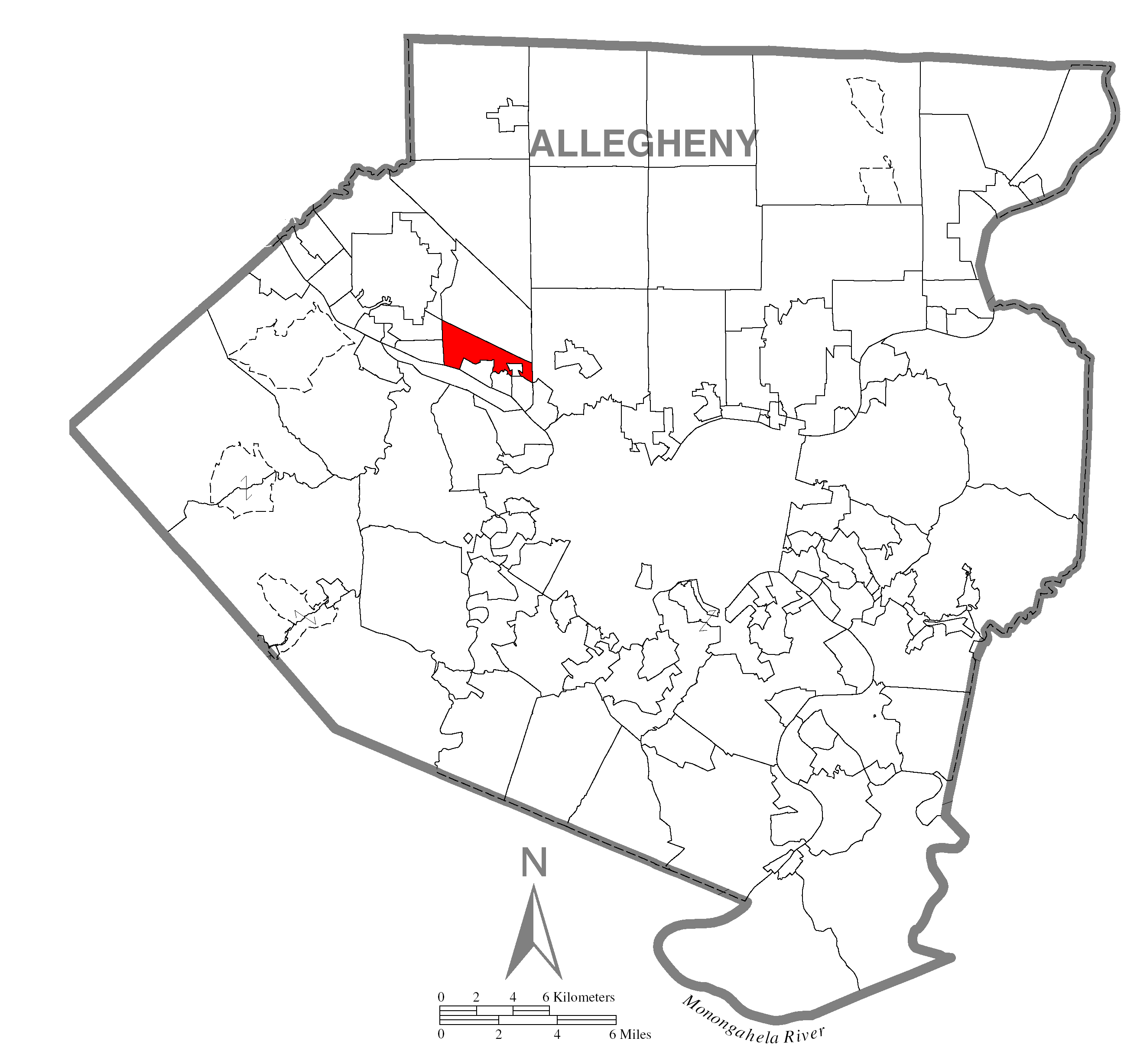 A map of Allegheny County showing Kilbuck Township, Pennsylvania (alternate) highlighted on the map.